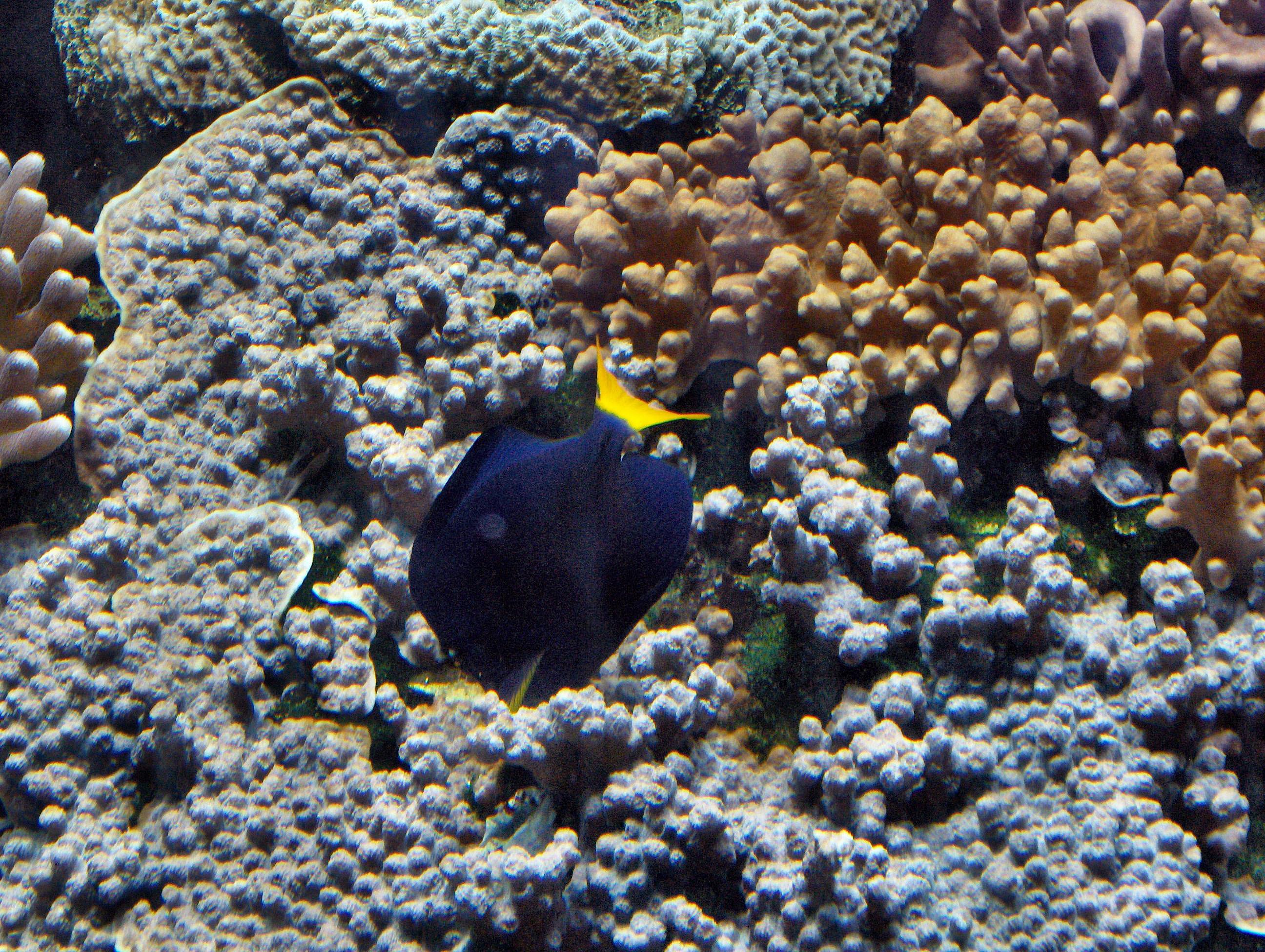 Musée Océanographique de Monaco